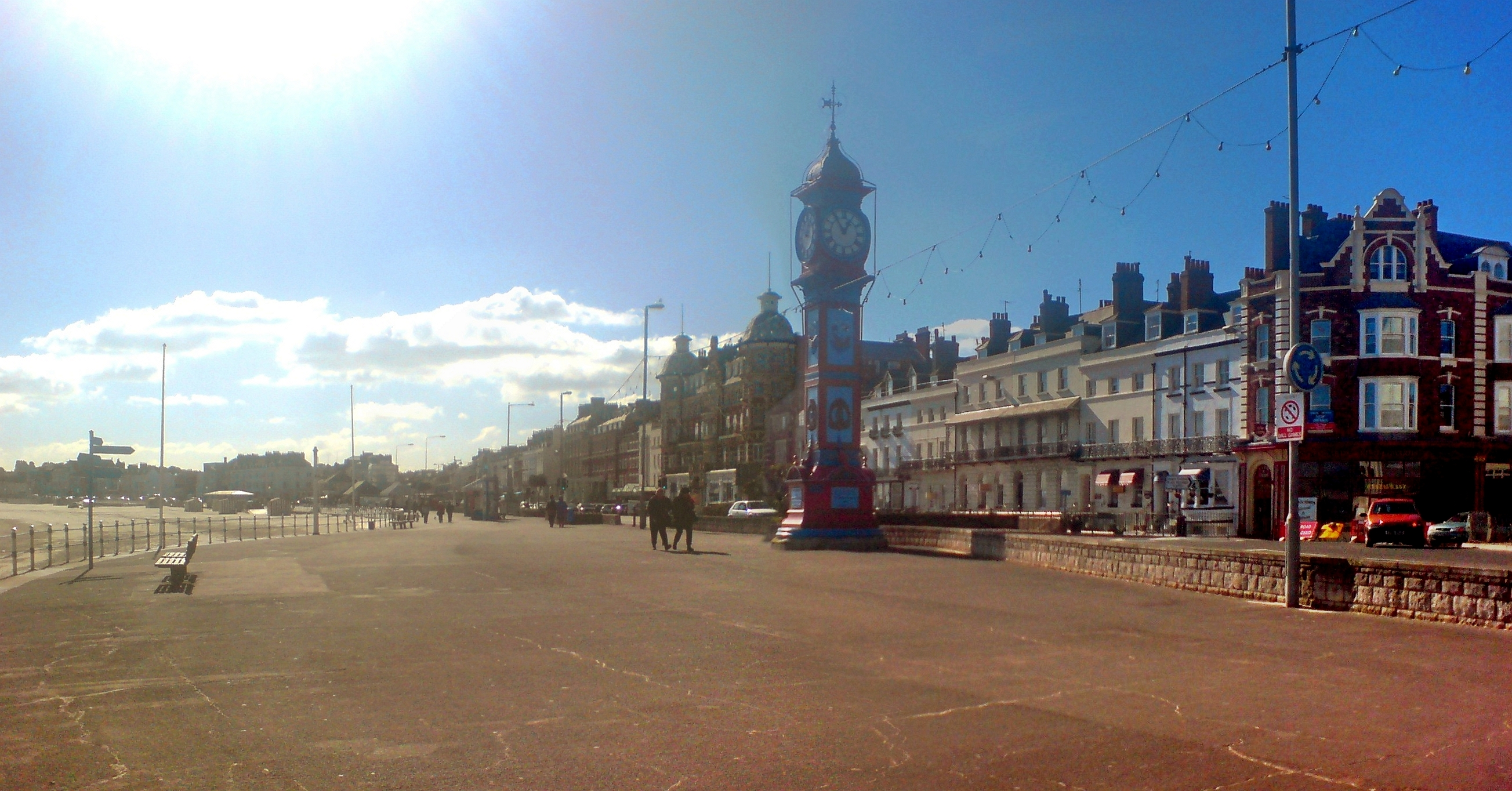 Panorama of Weymouth Esplanade, showing the Jubilee Clock, the Grand Hotel and Weymouth beach